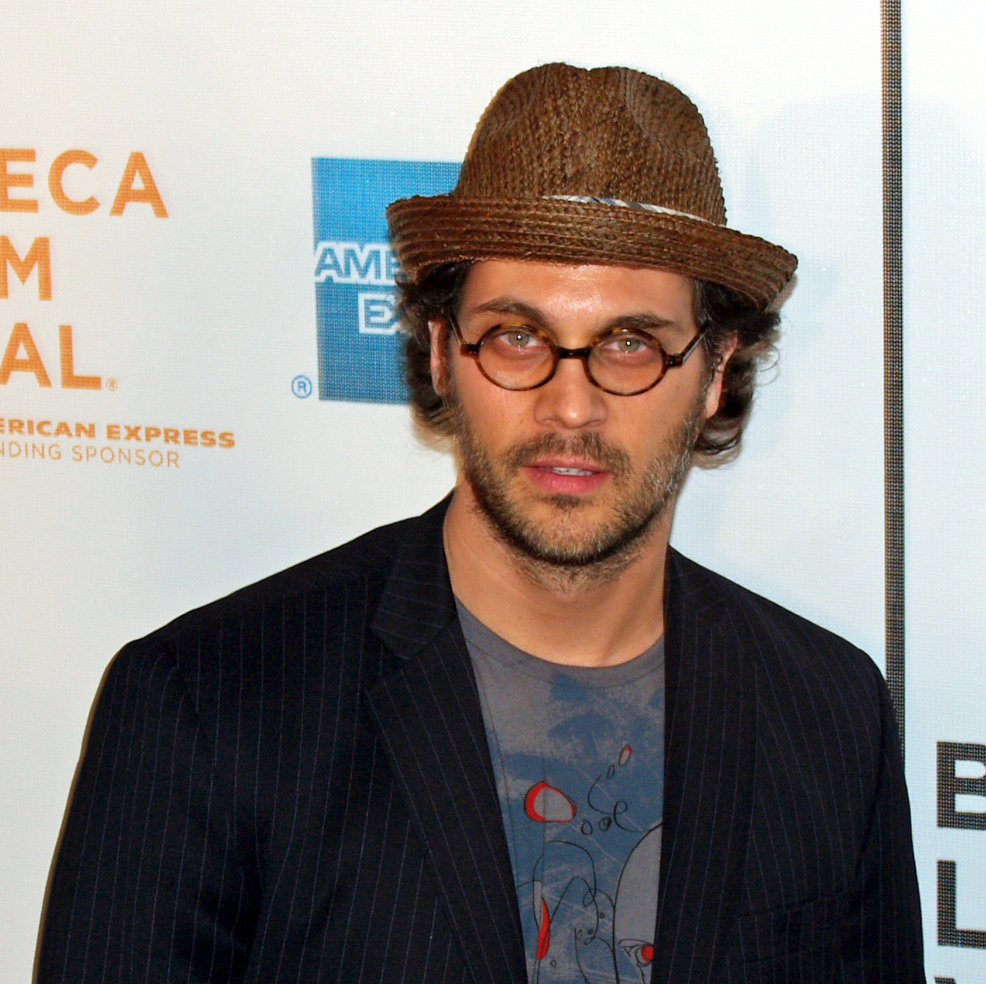 Todd Stashwick by David Shankbone